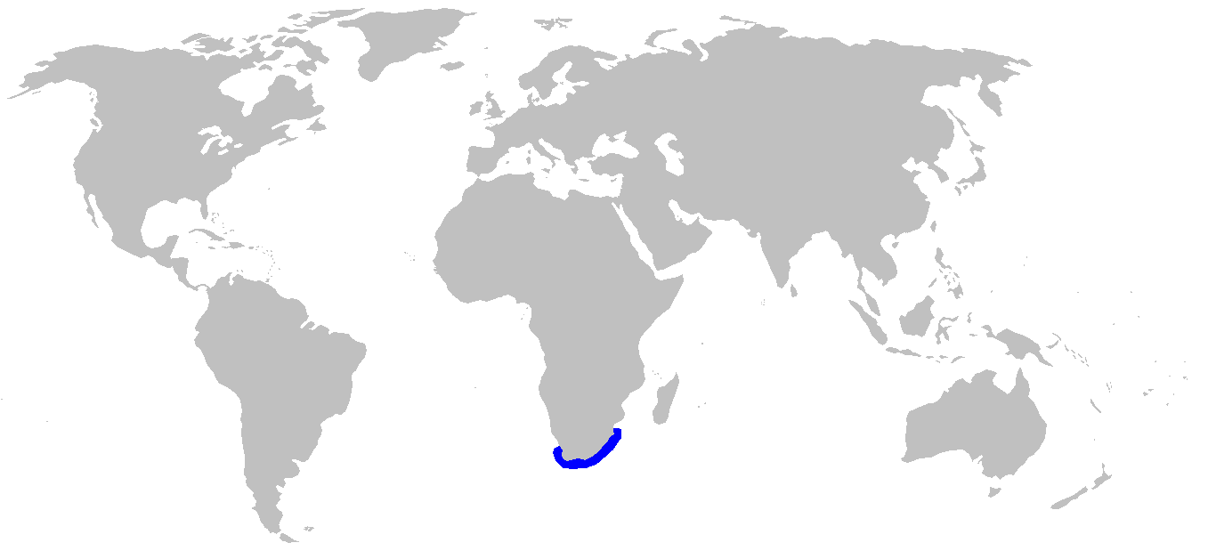 Distribution map for Poroderma africanum